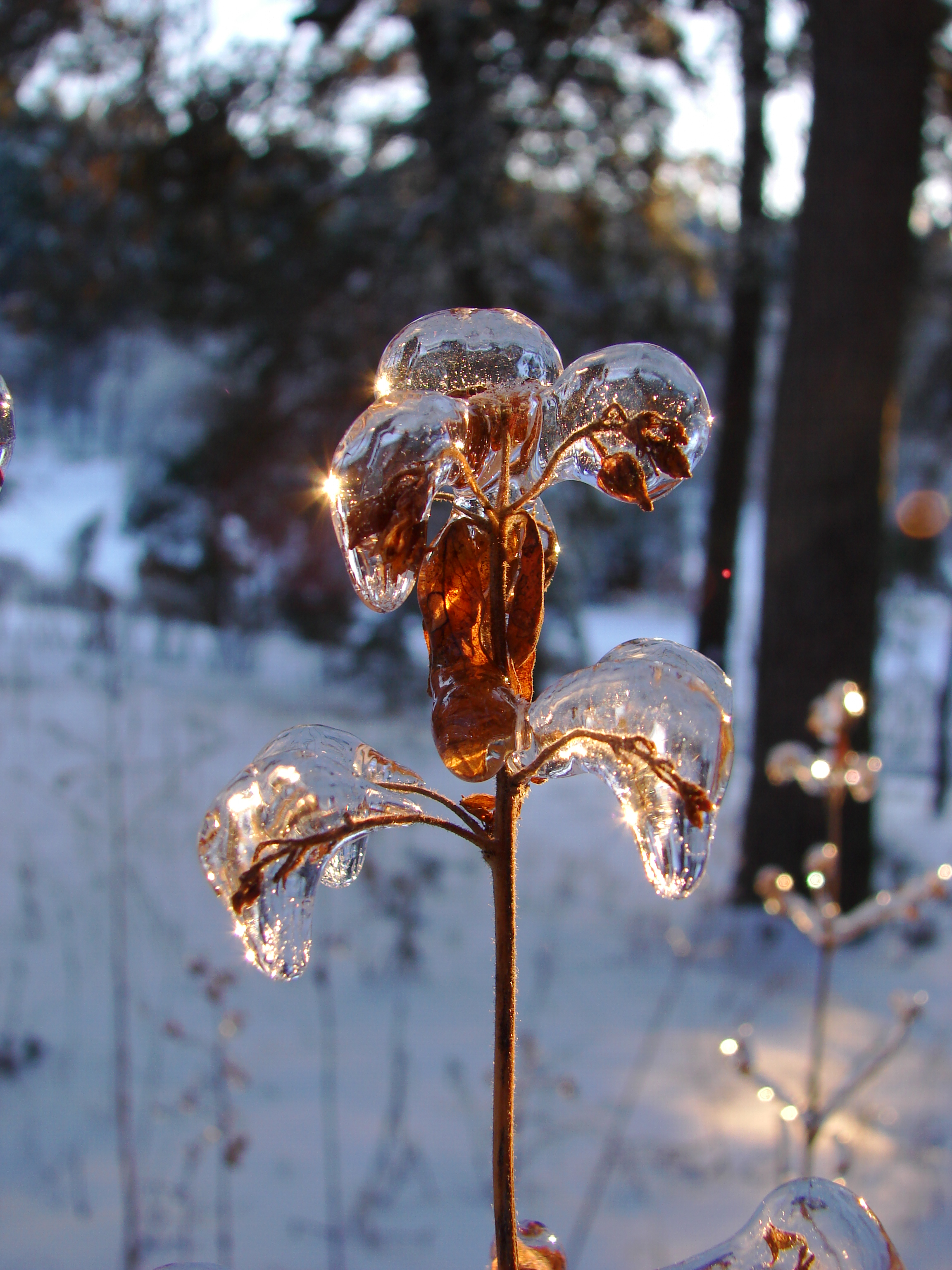 Ice storm in Lviv (Ukraine)